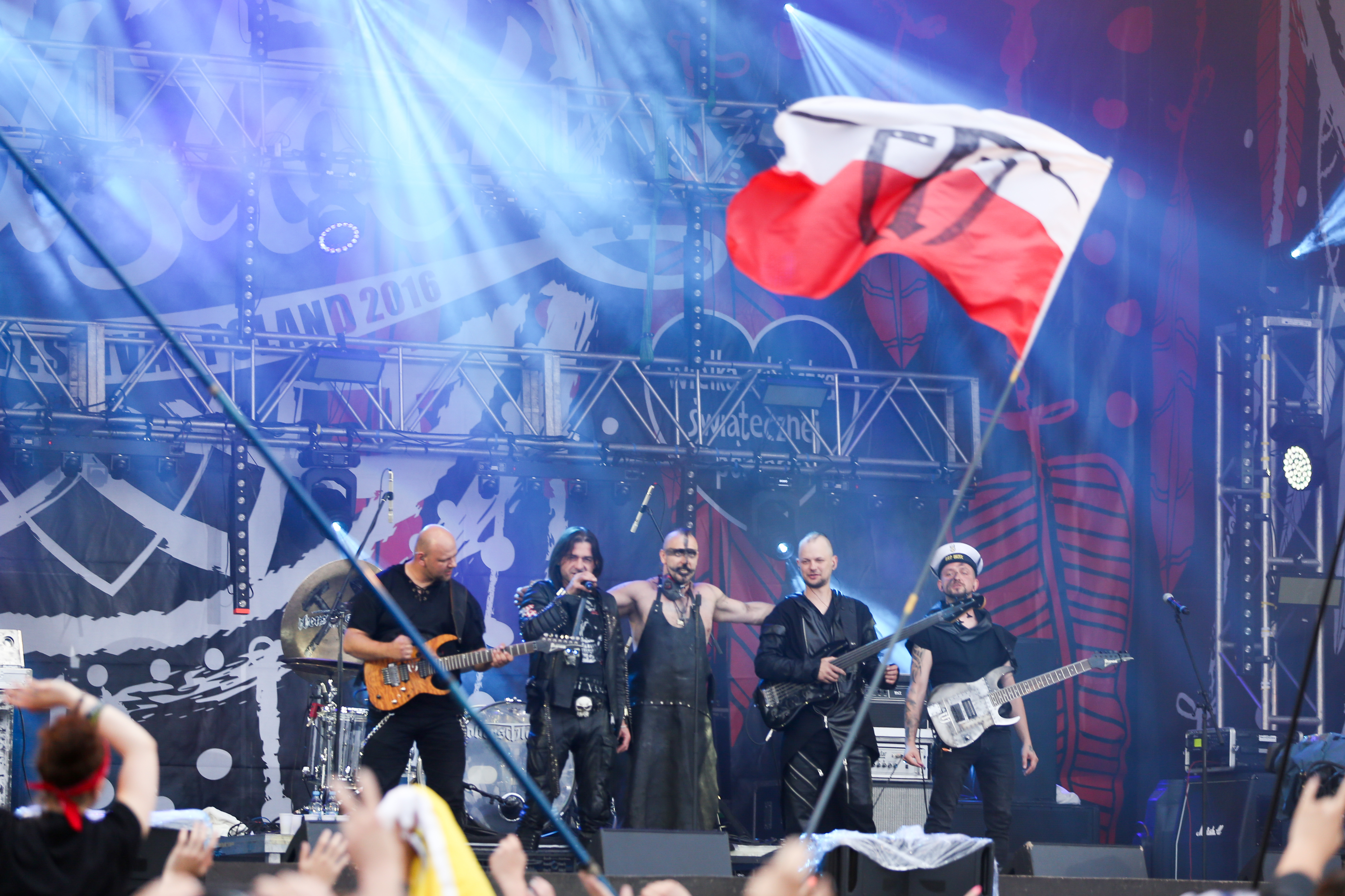 Przystanek Woodstock in 2016.